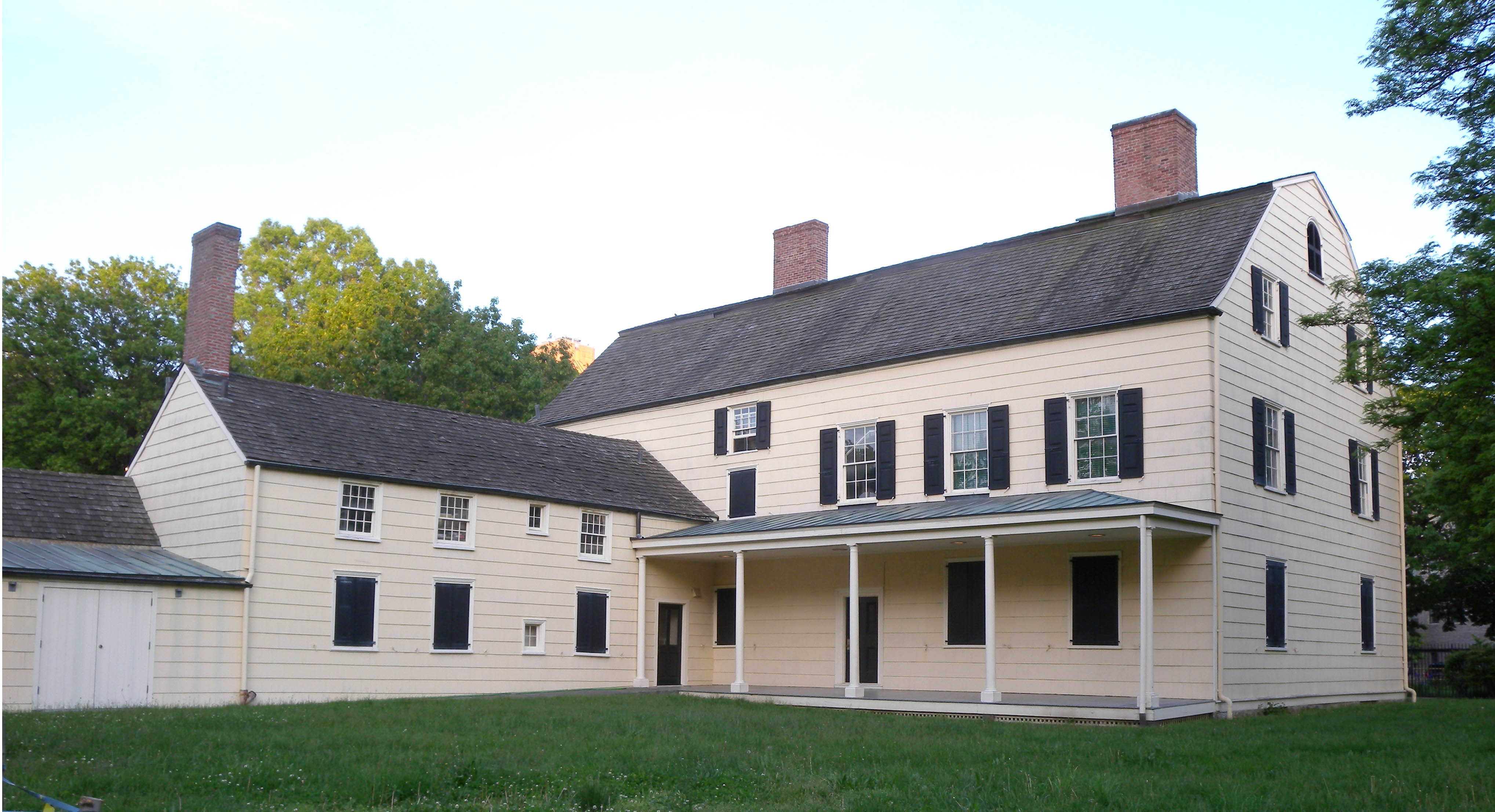 Looking southeast at Rufus King home in Jamaica near dusk of a sunny day. See also File:Rufus-king-house.jpg